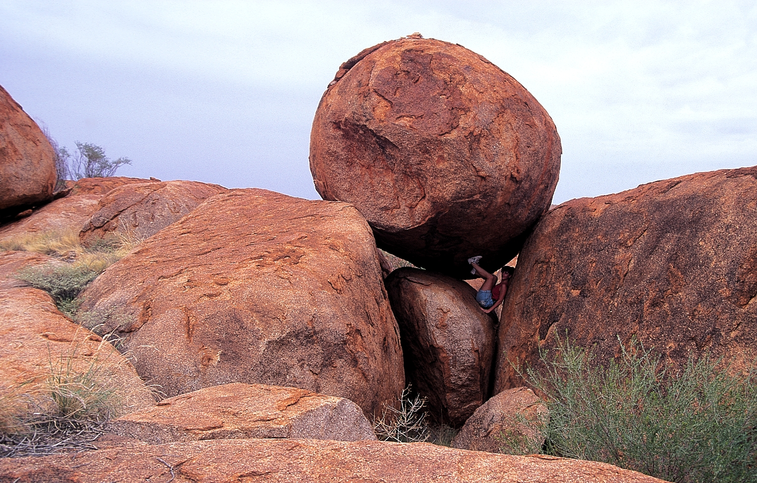 Devil´s Marbles - Karlu Karlu